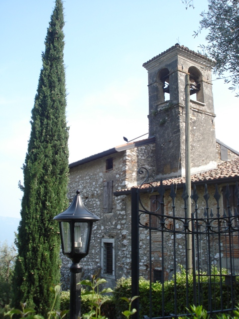 Supine Sanctuary, the bell tower and the home of the hermits